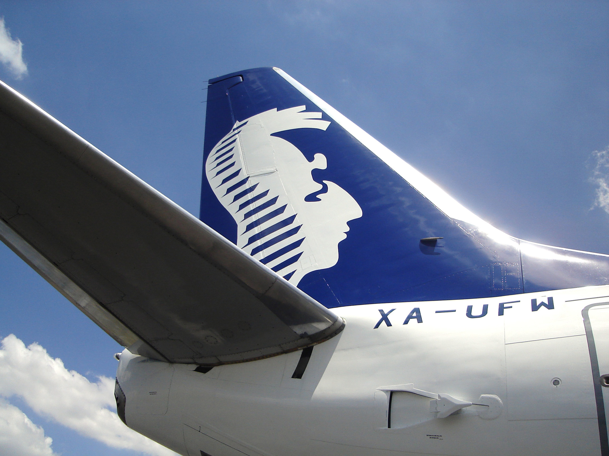 Aviacsa Boeing 737-301